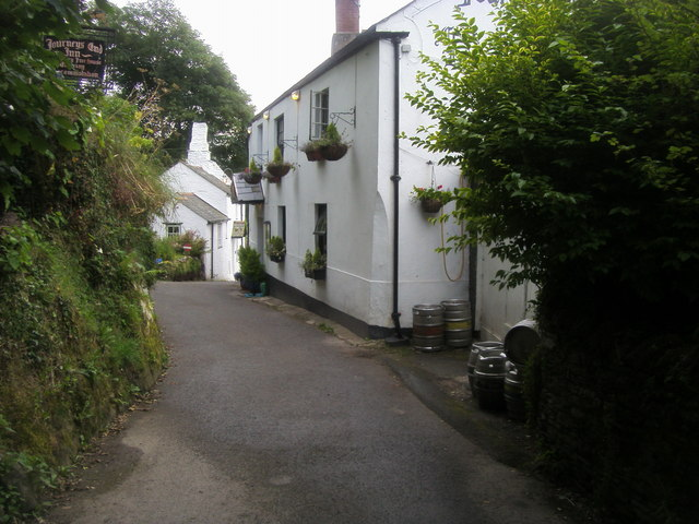 Journeys End The Journeys End Inn Ringmore